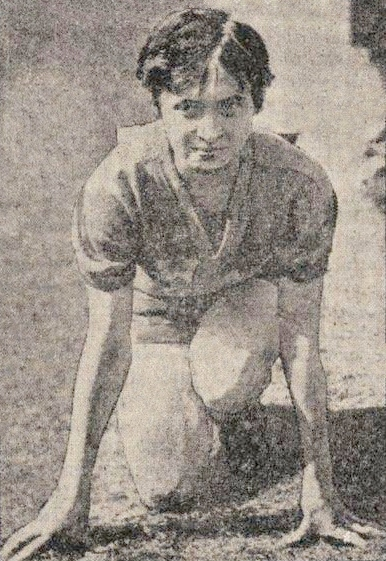 Betty Robinson.